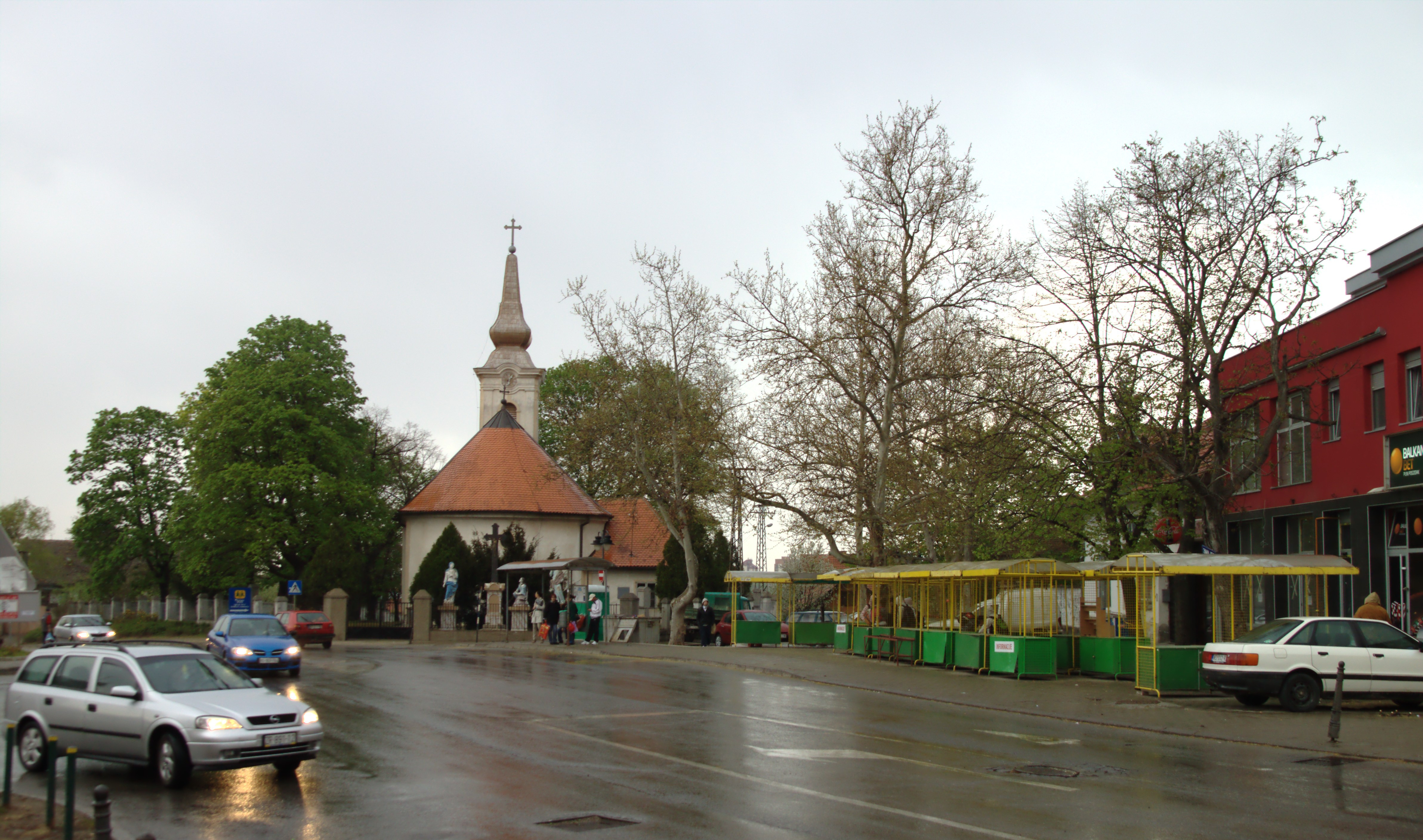 Central part of the town of Sremska Kamenica, located across the Danube River in Srem, Serbia